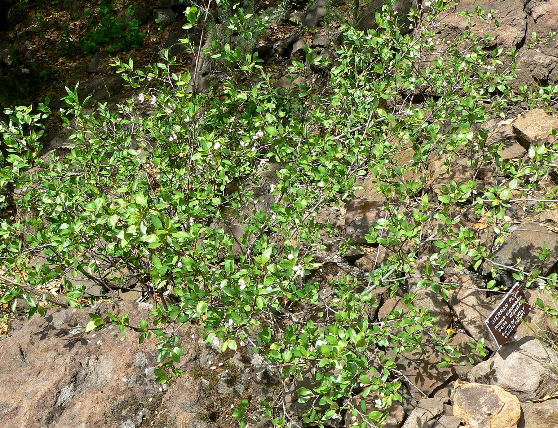 Photo of Prunus subcordata at the Regional Parks Botanic Garden, Berkeley, California